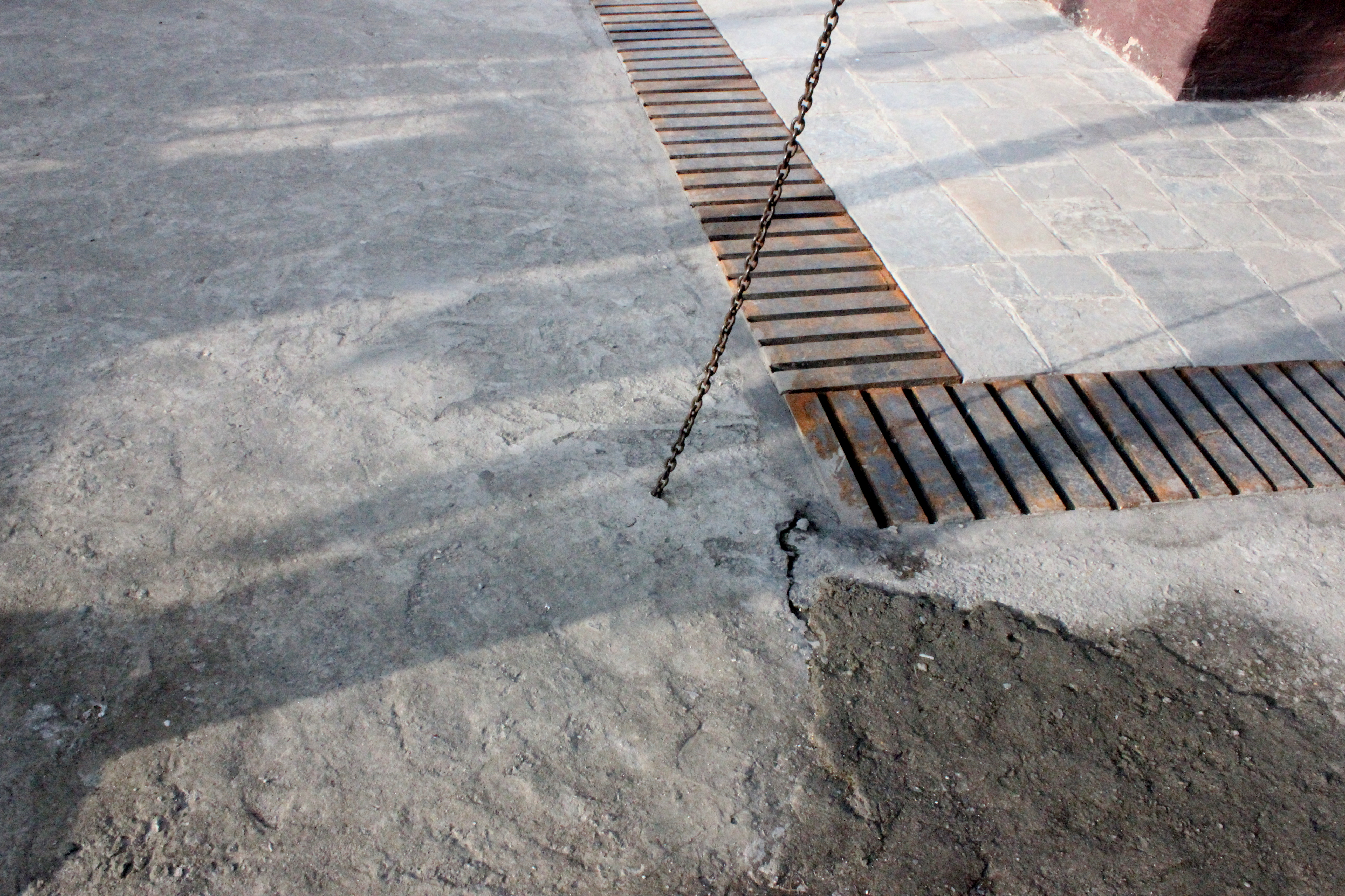 This picture shows the preservation steps taken at the Pemayangtse Monastery.